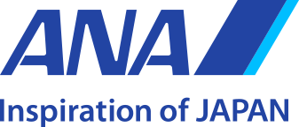 Logo of All Nippon Airways with additional „Inspiration of JAPAN“ titles